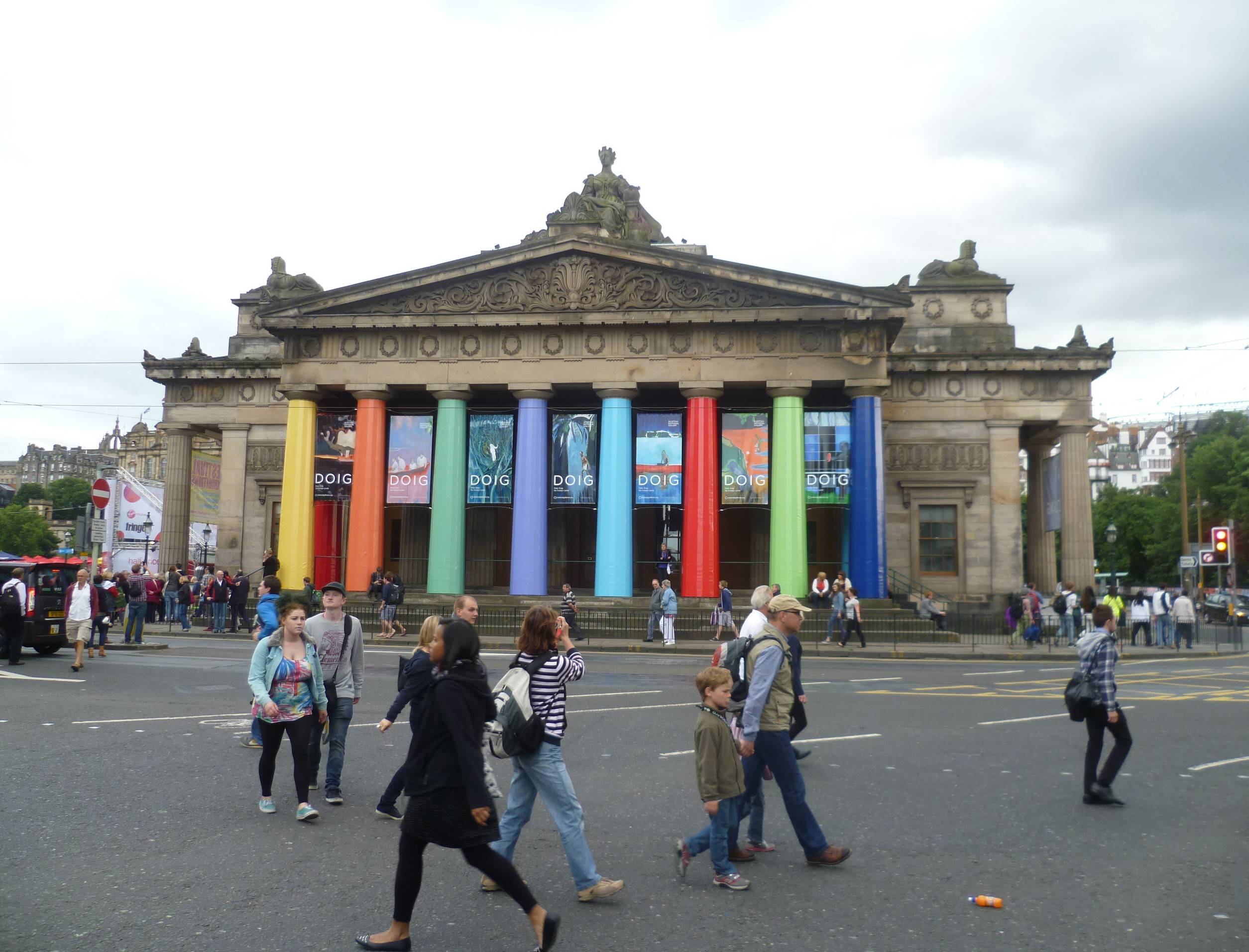 The Royal Scottish Academy building decorated during the Edinburgh International Festival, 2013